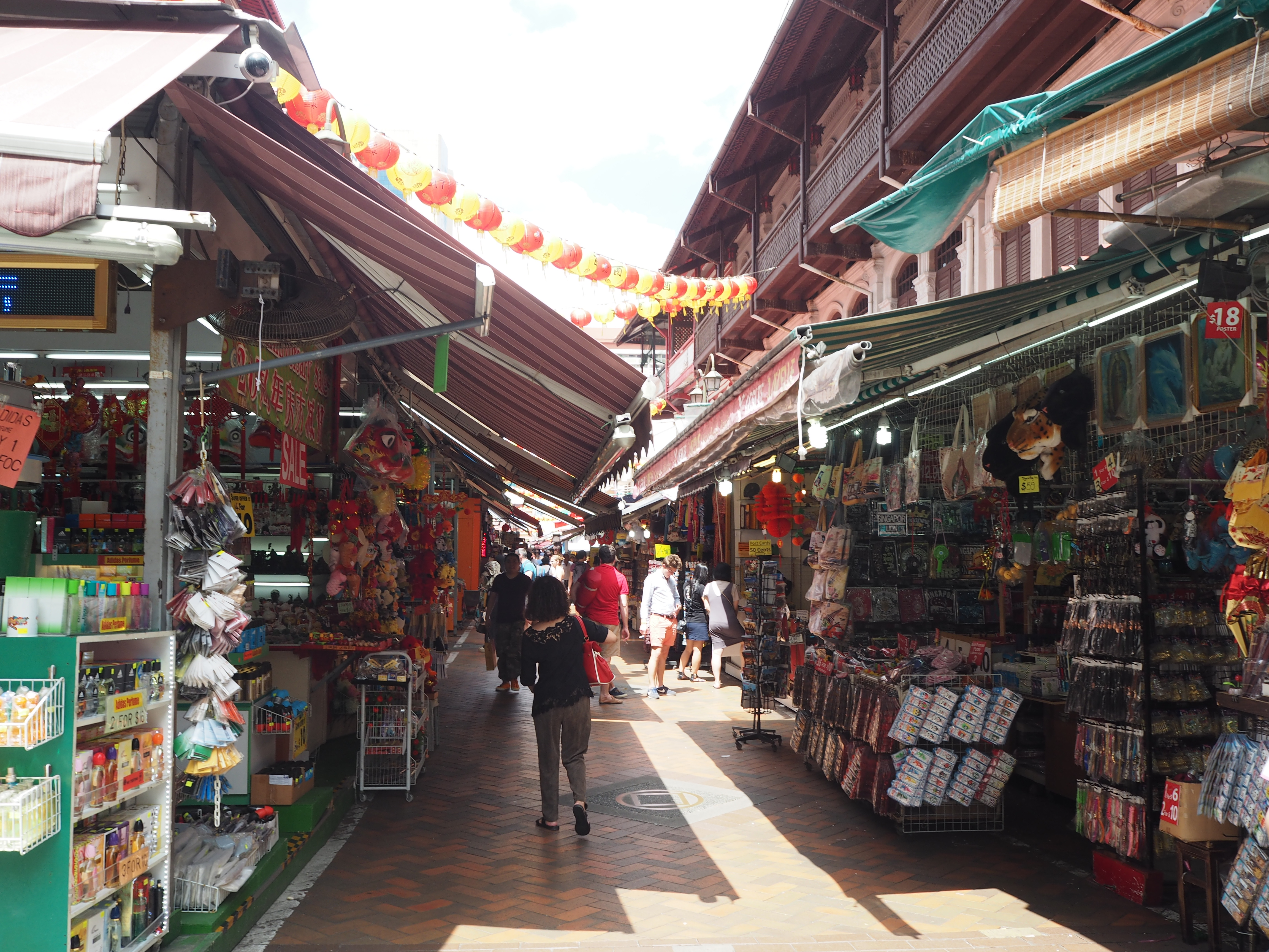 Current Tregganu Street